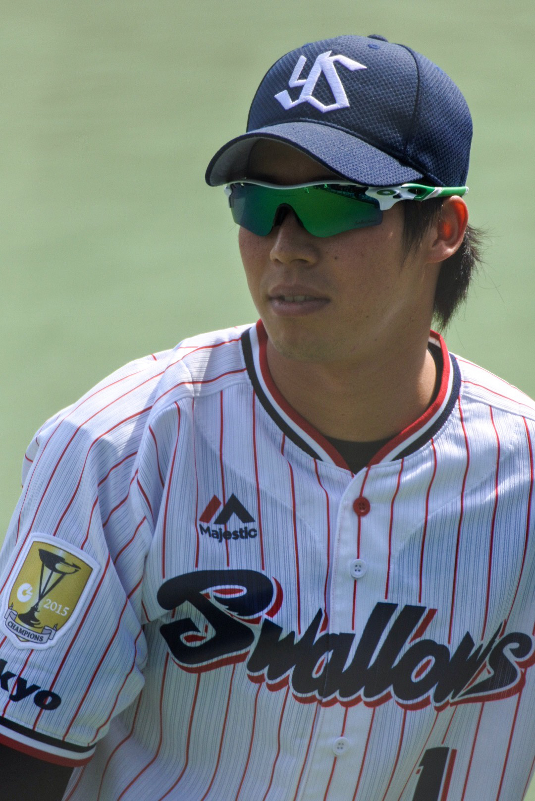 Apr 16, 2016 at 14:37, Ehime 松山中央公園野球場